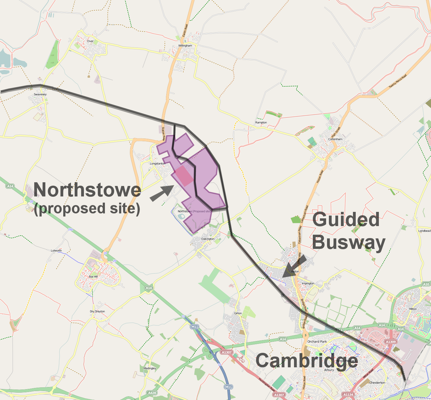 The site of the proposed Northstowe development and proposed guided busway route in Cambridgeshire, UK, overlaid on OpenStreetMap data.